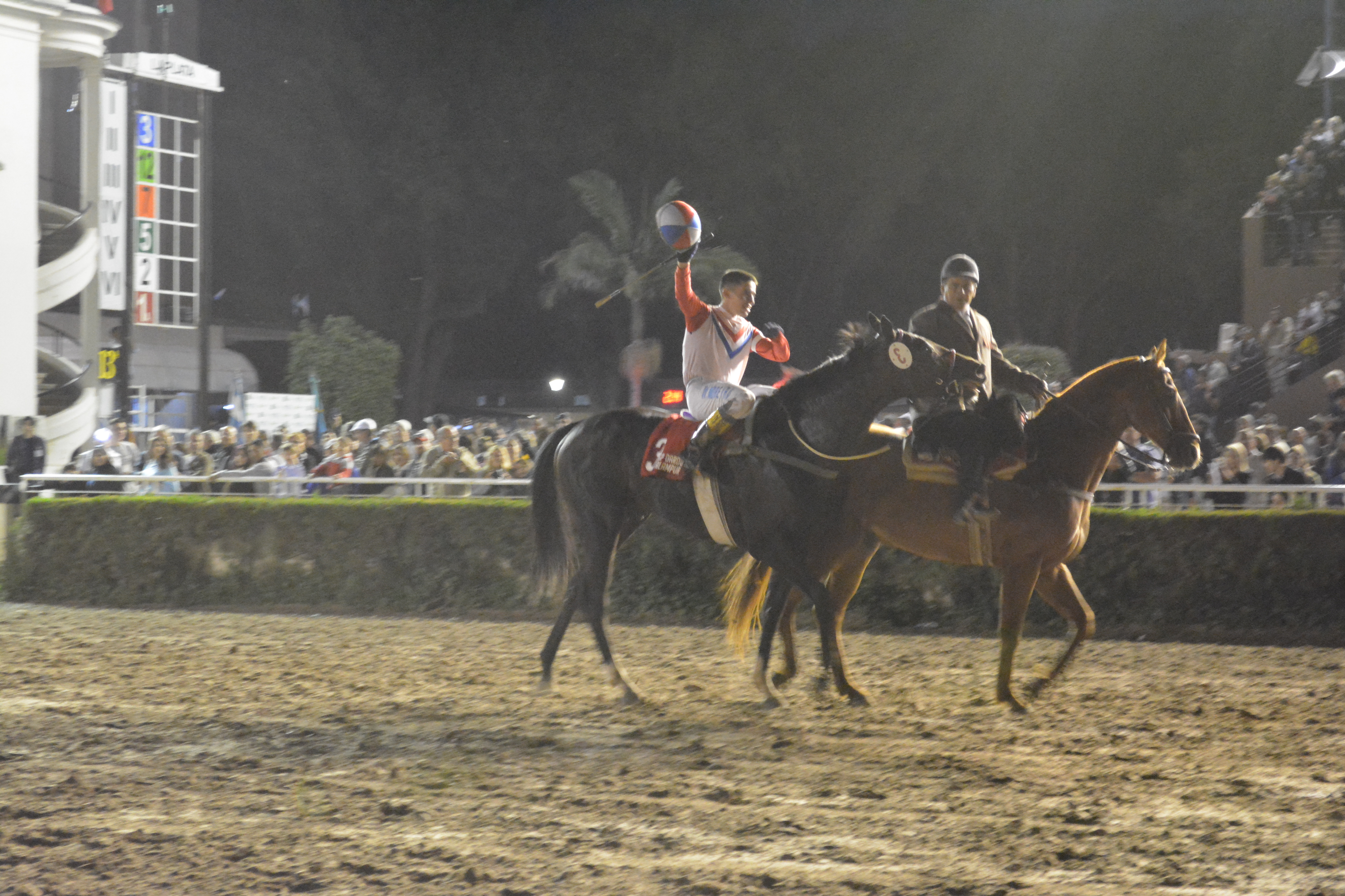 PSC Alampur